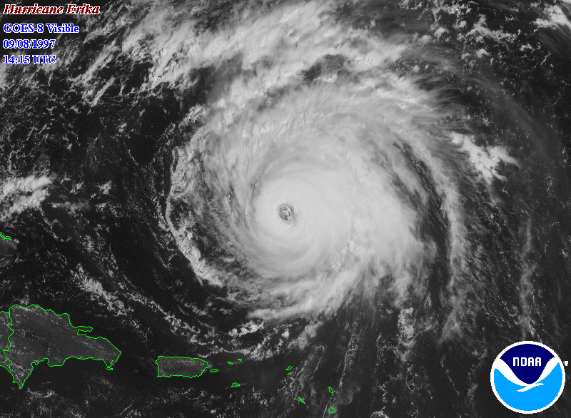 Hurricane Erika in the en:1997 Atlantic hurricane season